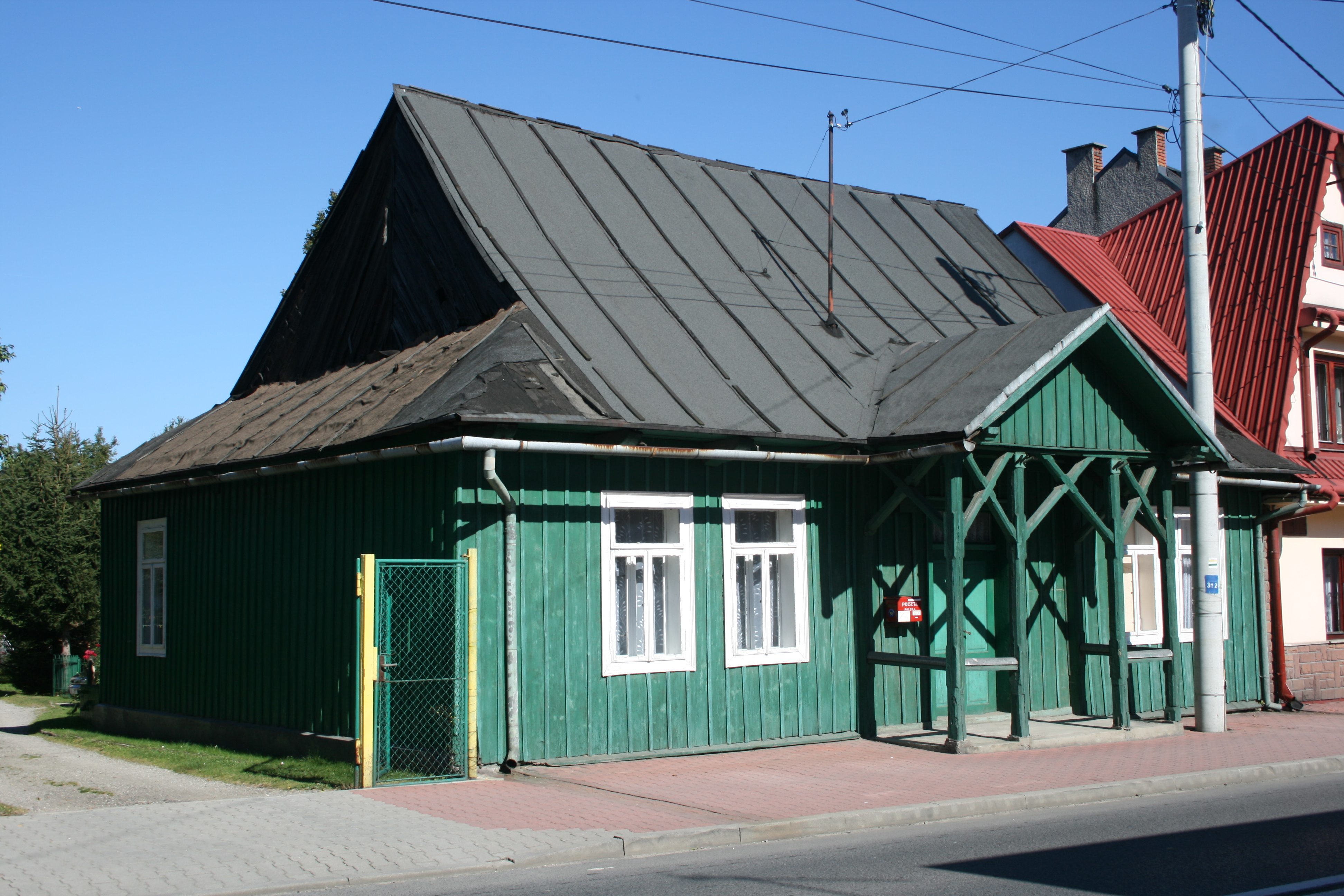 Historic monument in Krościenko nad Dunajcem – 68 Jagiellońska Street